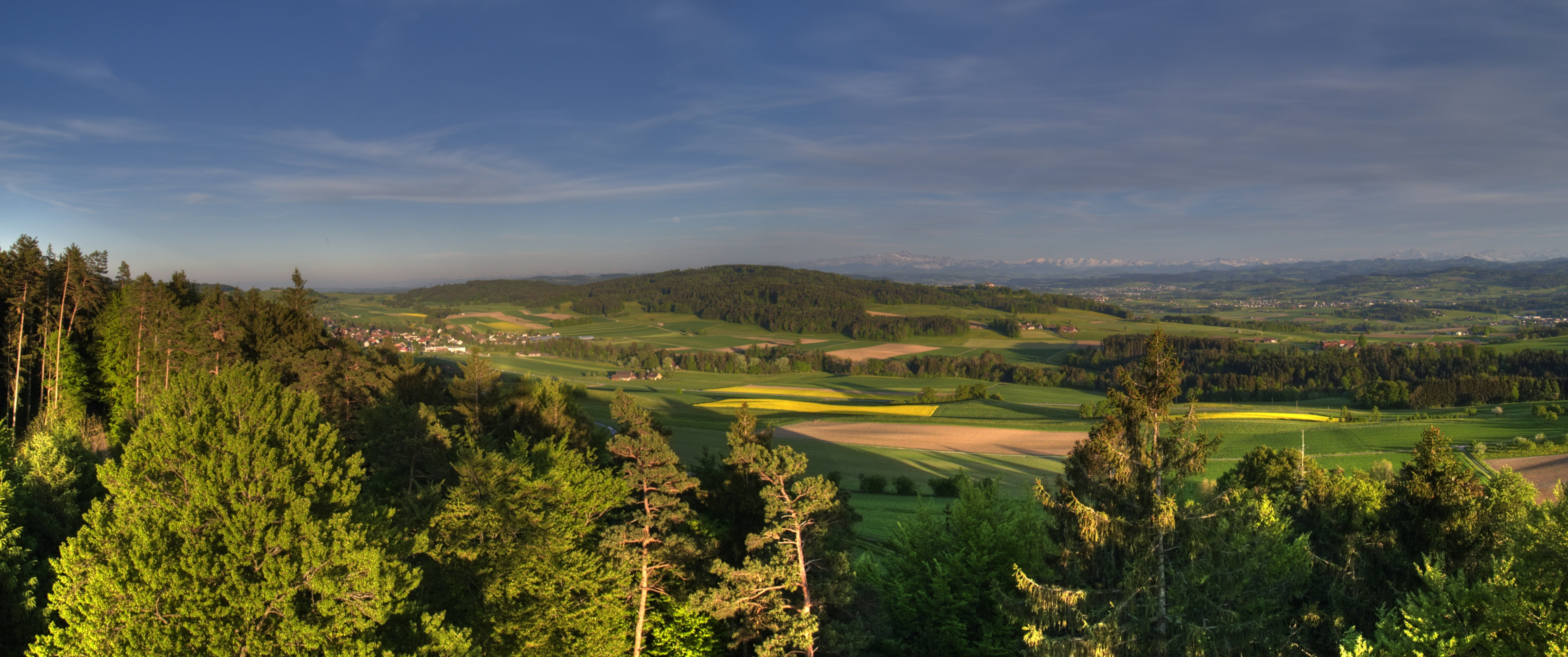 Thundorf and the Mountains of the Alpstein, view from Staehlibuck near Frauenfeld.